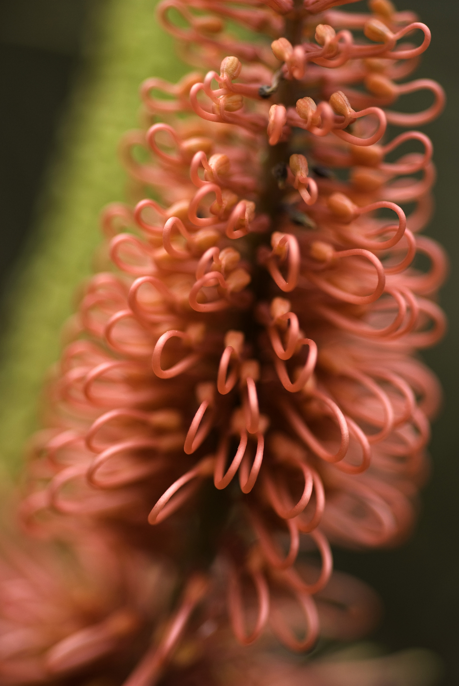 Flower of Hakea bucculenta